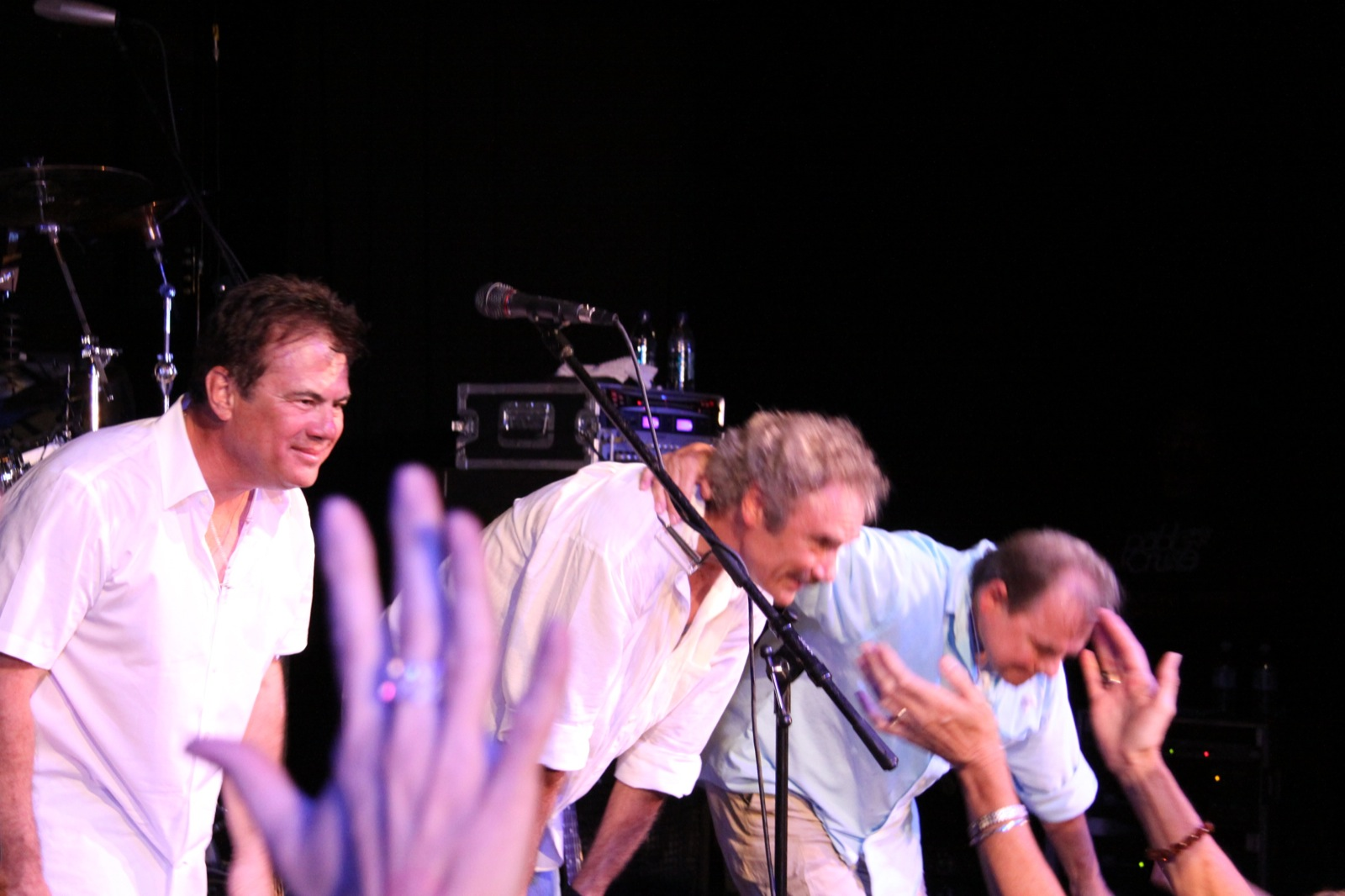 Pablo Cruise - founding members' bow